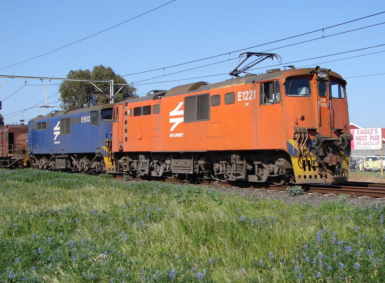 SAR Class 6E E1221 Location: Stikland, Cape Town